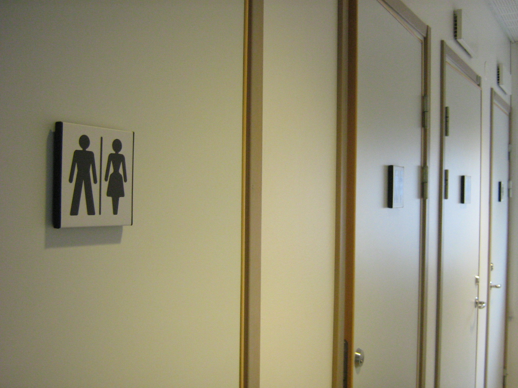 Gender neutral toilets at department of sociology, Gotenburg University, Gothenburg, Sweden.